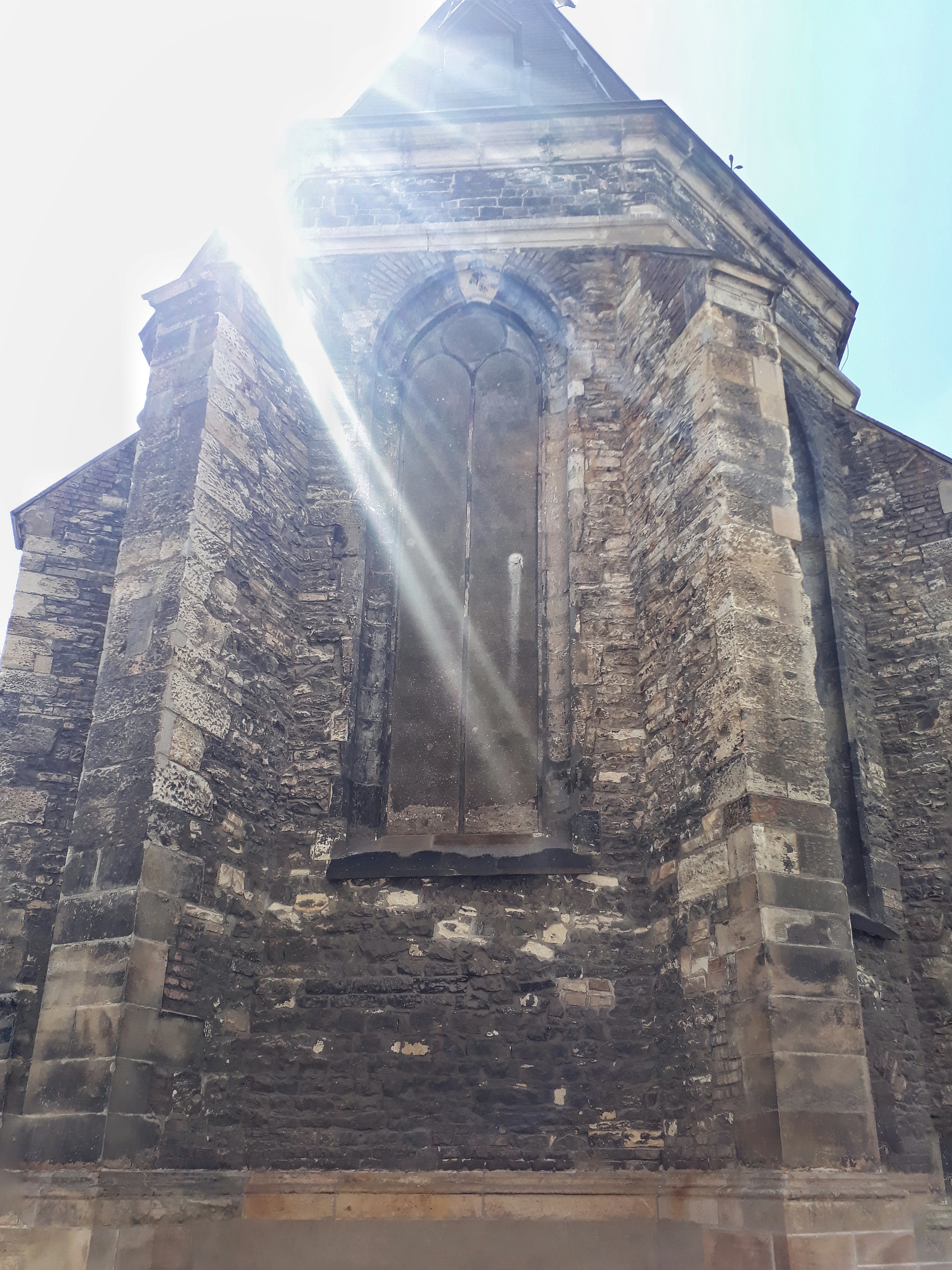 East Frontage - the walled up window